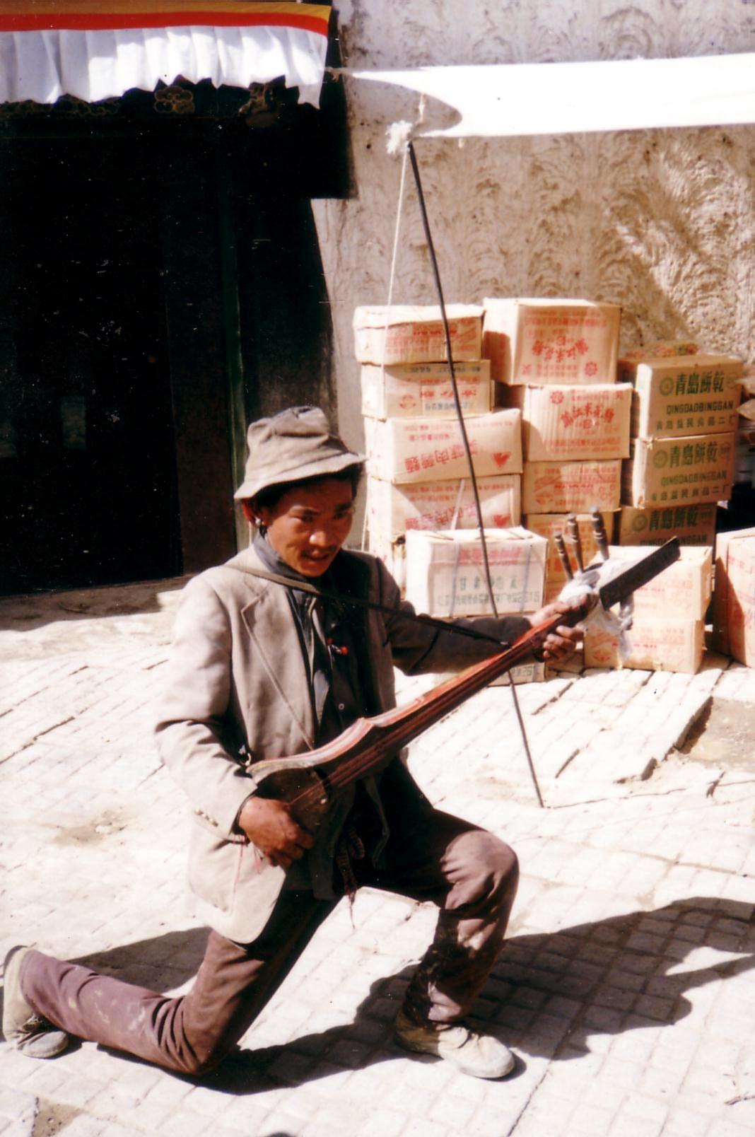 Street musician Xigatse, Tibet, 1993